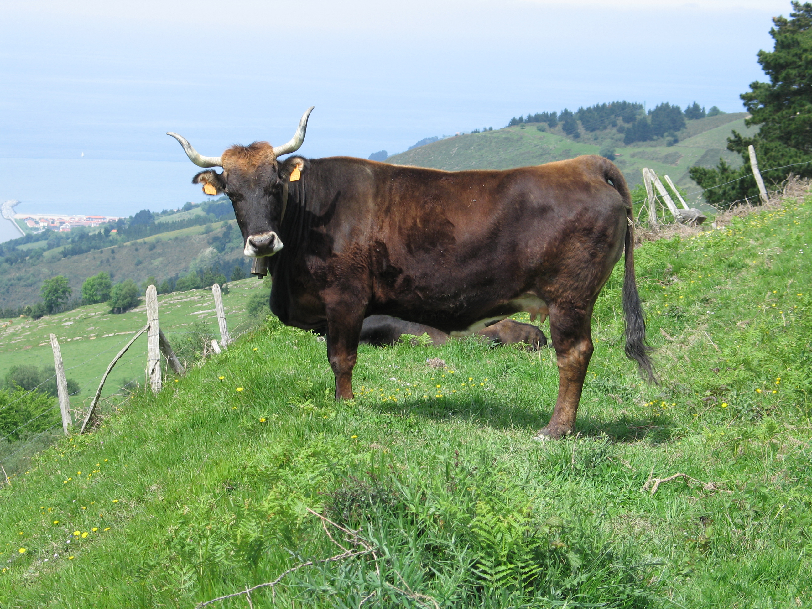 Terreña arrazako behia Zumaian.